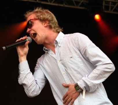 Chris Lee